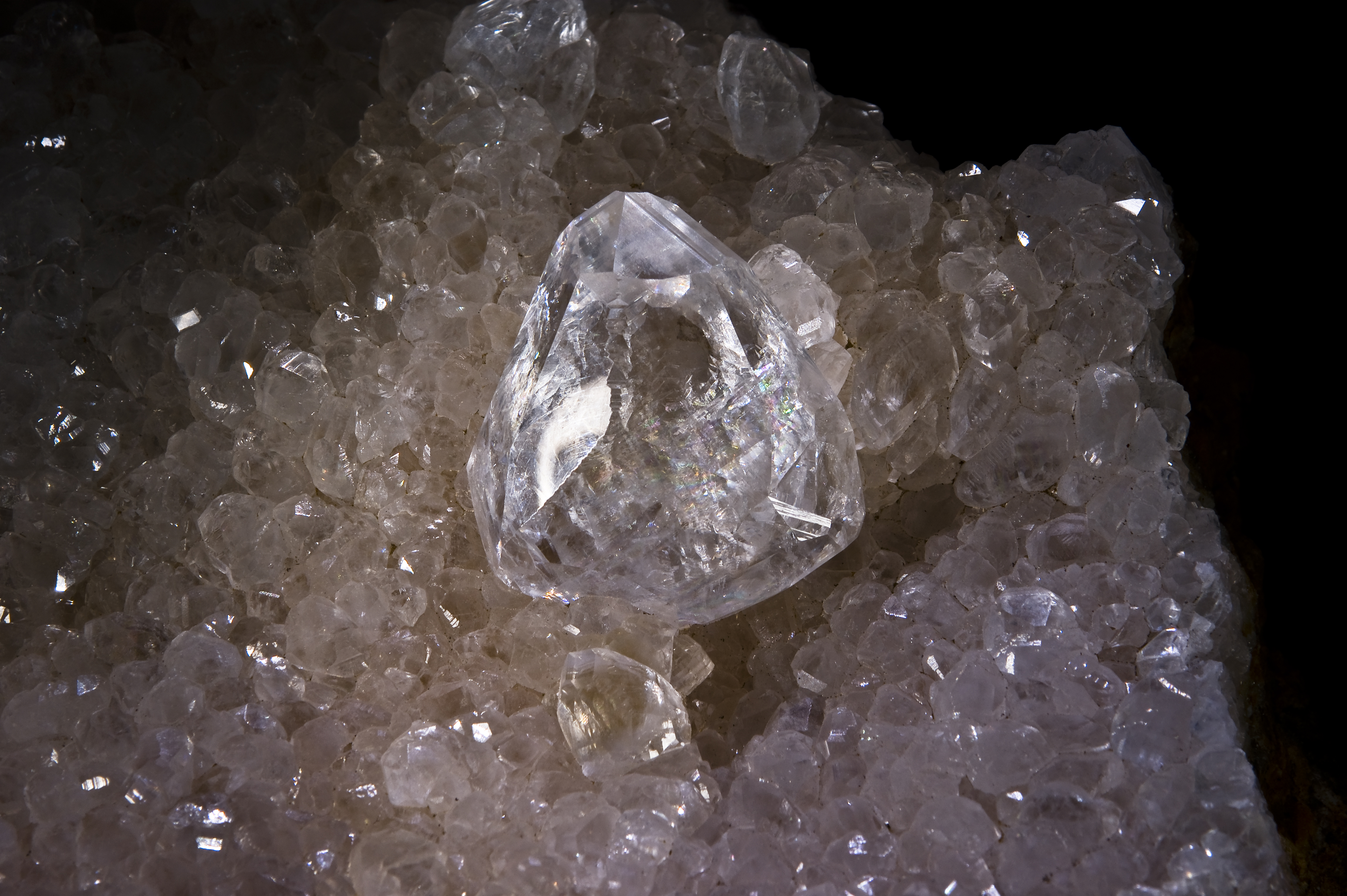 Calcite Locality: Pau, Pyrénées-Atlantiques, Aquitaine, France Size: 24x22x2cm Crystal 3.5 cm